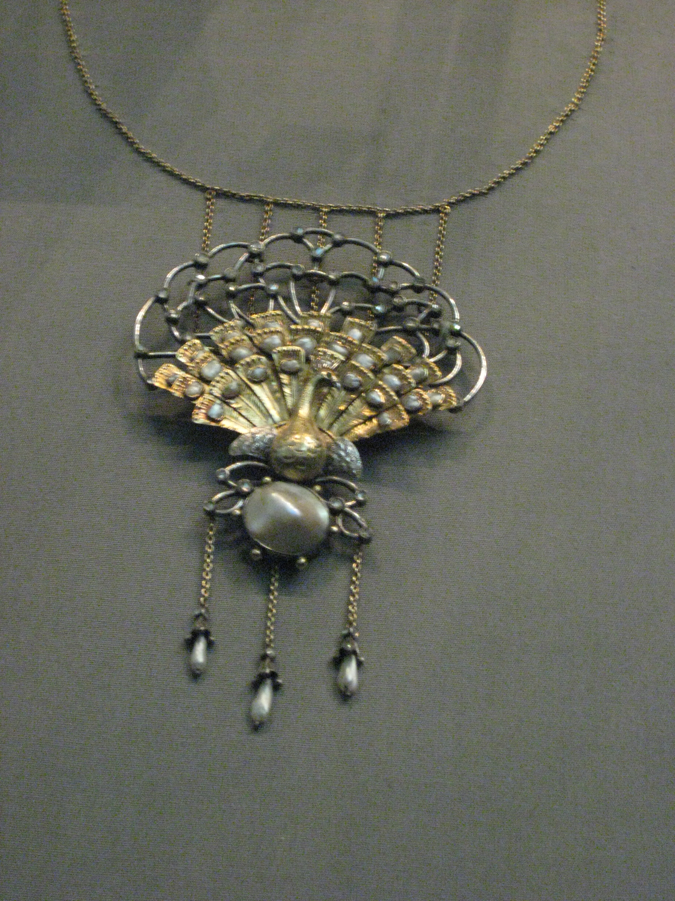 Designed by Charles Robert Ashbee (1863 - 1942) Made by the Guild of Handicraft Ltd, London British 1901 Item number: M23-1965